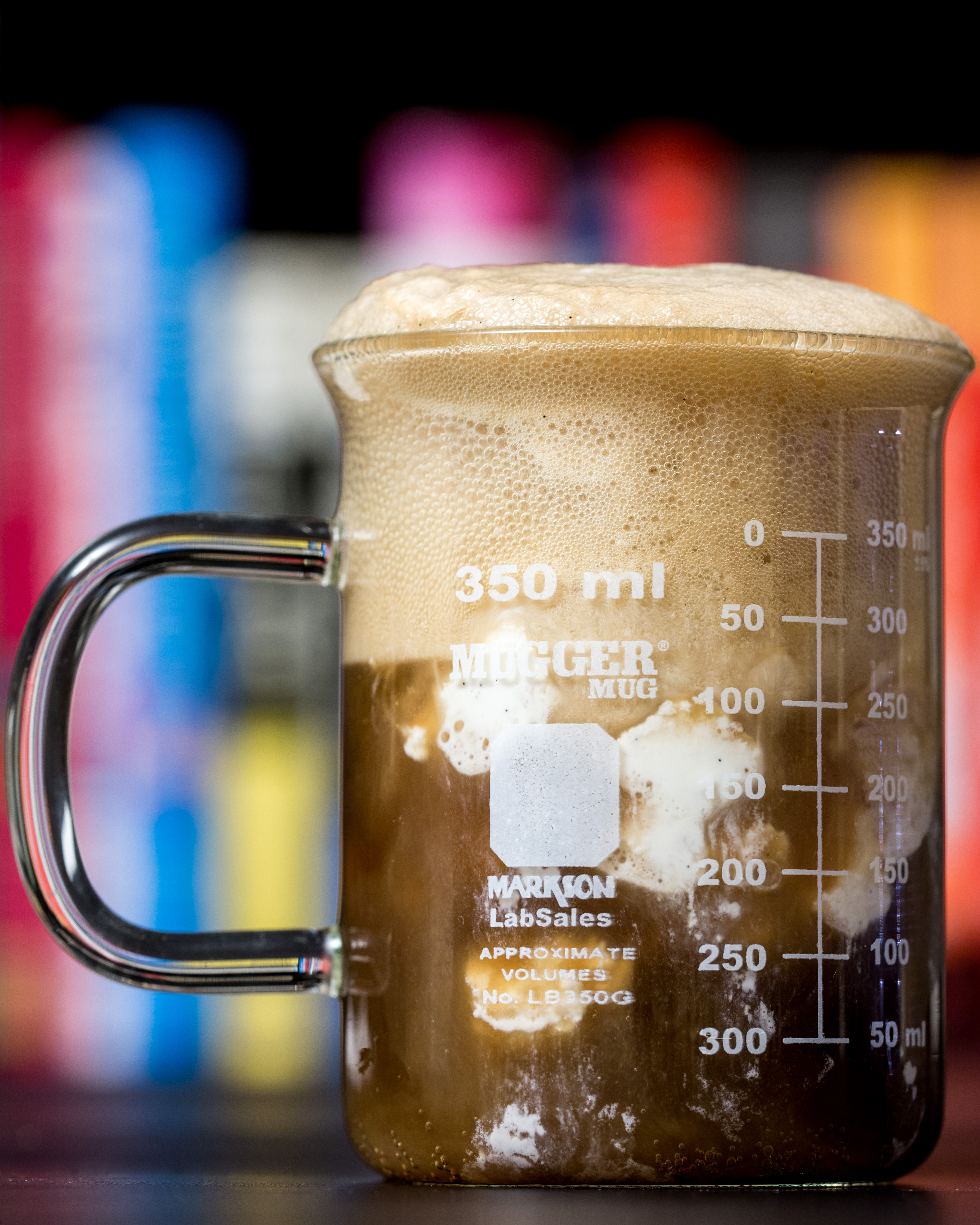 A root beer float. Day 364 - #CY365 - Cozy Indulgence